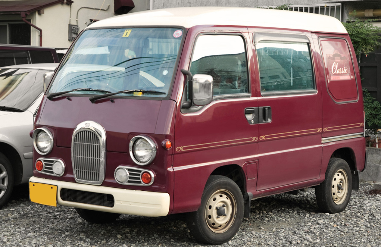 Subaru Sambar Dias Classic